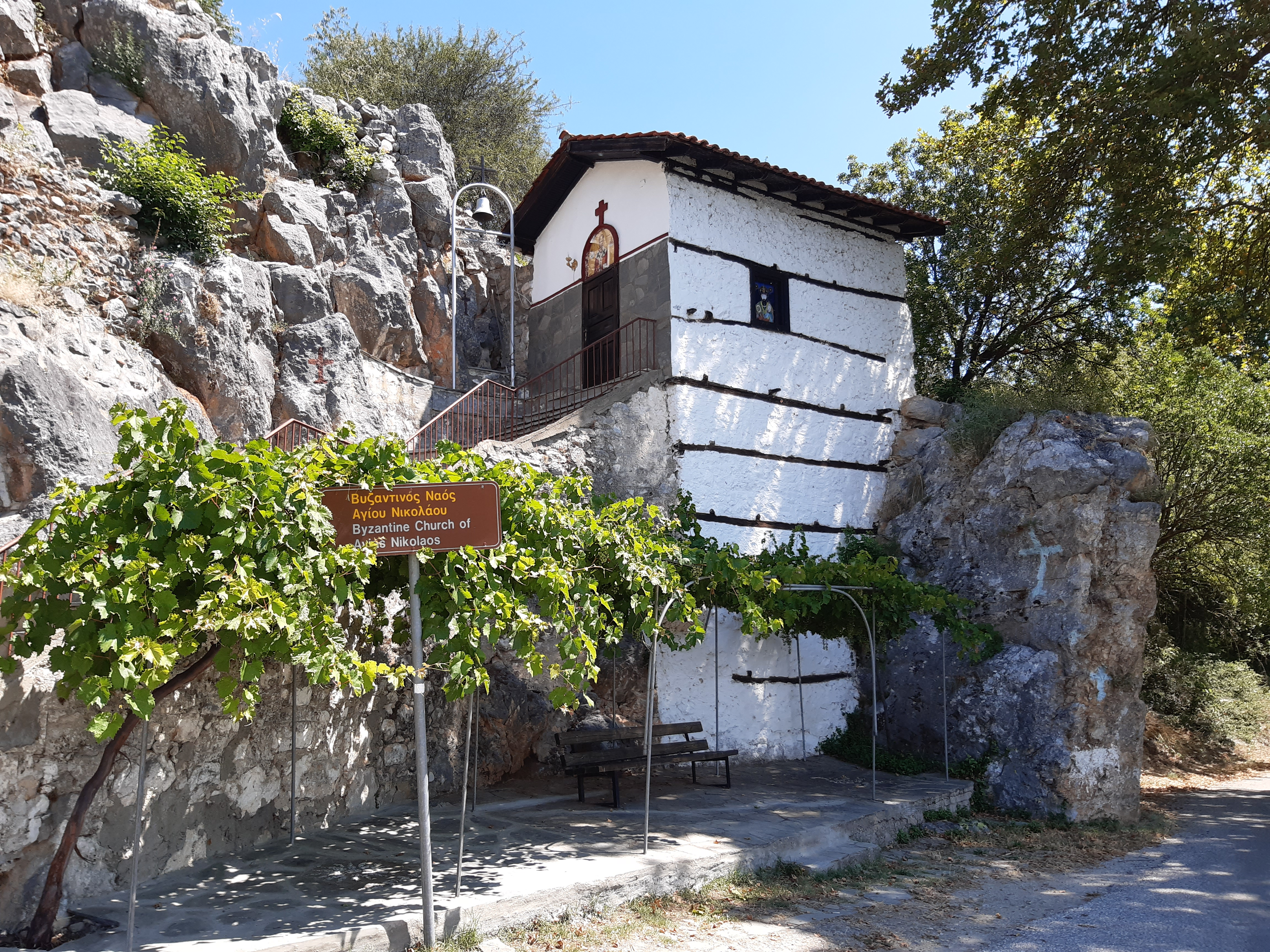 Saint Nicholas of the Fishermen Church